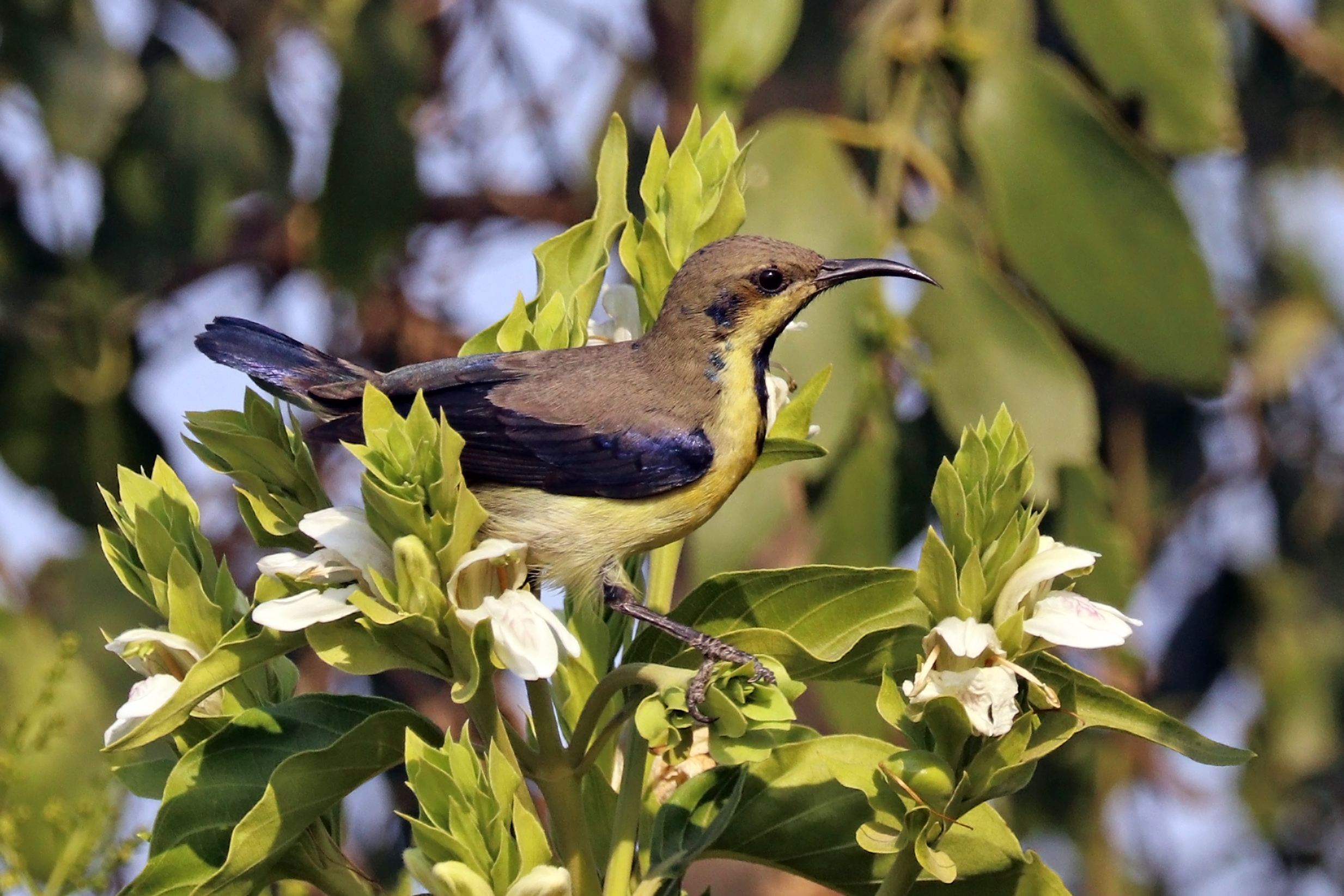 Purple sunbird (Cinnyris asiaticus asiaticus) male non-breeding, Keoladeo NP, Bharatpur, India